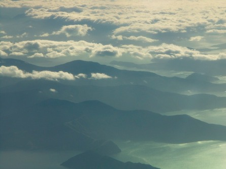 Photo-20060407-03MetVuw.jpg - photo taken and uploaded by Paul Moss, Photographer, Artist, Paul Moss Photographer Artist NZ